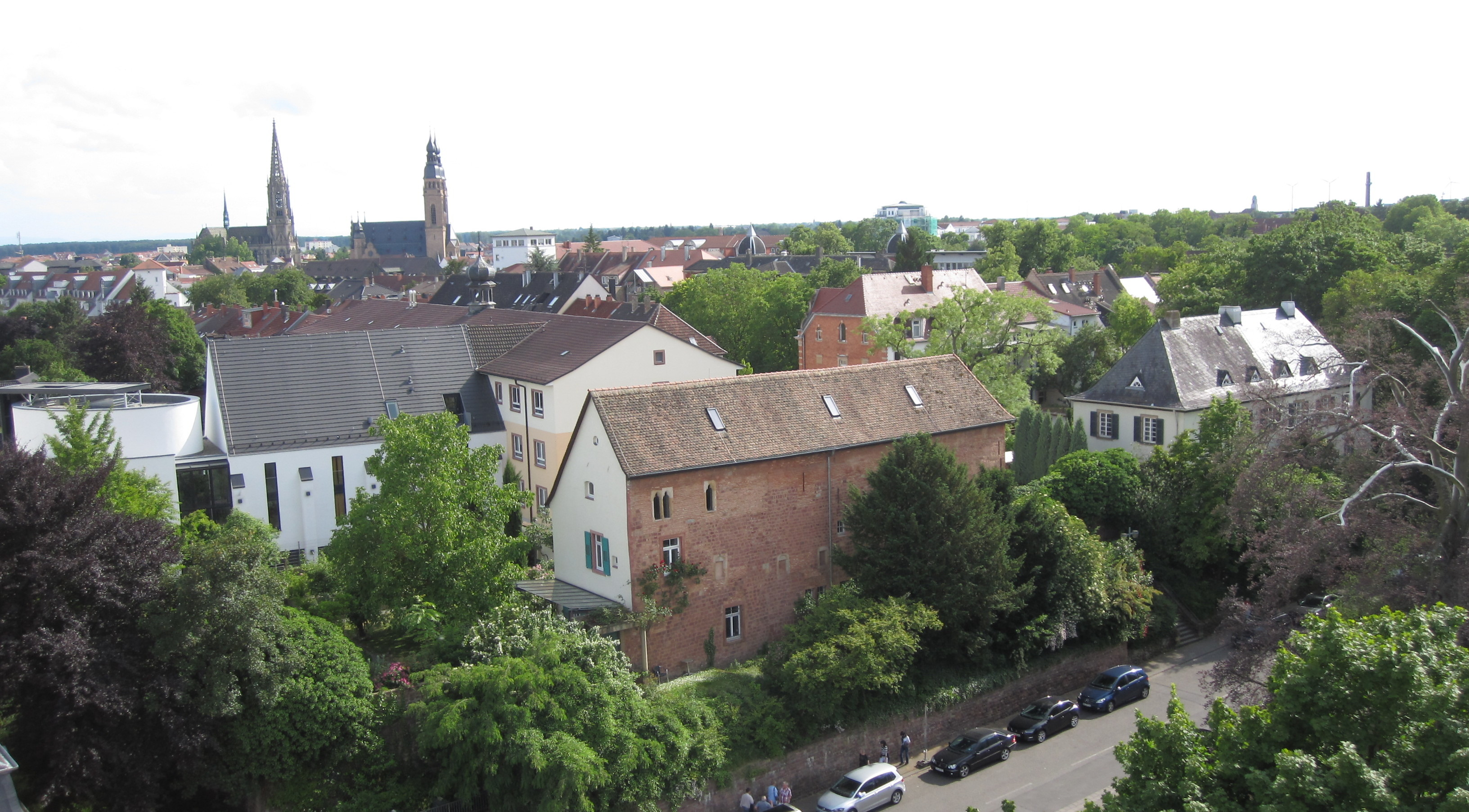 Street Hirschgraben in Speyer